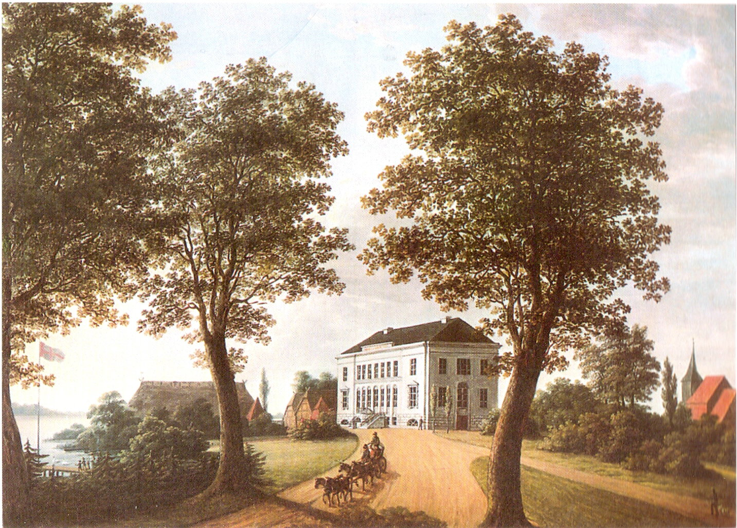 Gudow manor ca. 1830, built by architect J.L. Lillie in 1826. Painting oil on canvas by unknown artist. On the right edge mediaeval St. Mary's in Gudow.